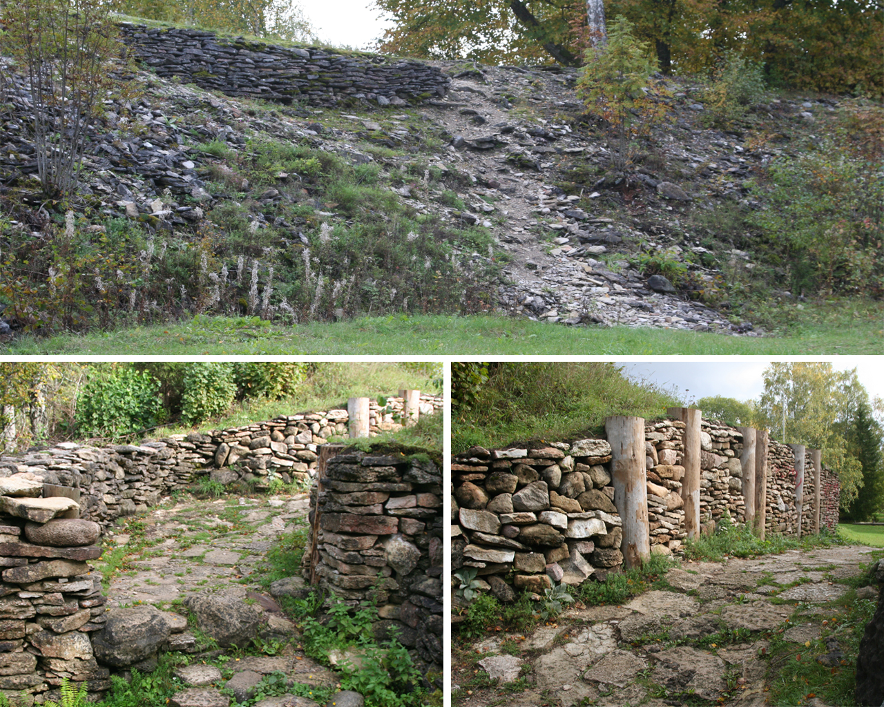 Varbola Stronghold Ruins in Western Estonia, 10-12th century CE